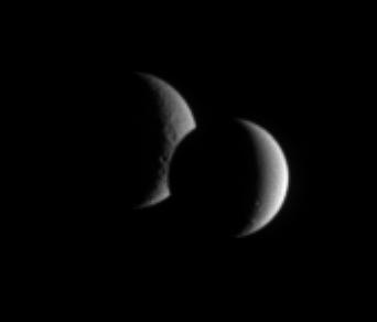 Two of Saturn's natural satellites, Dione (r) and Rhea (l).